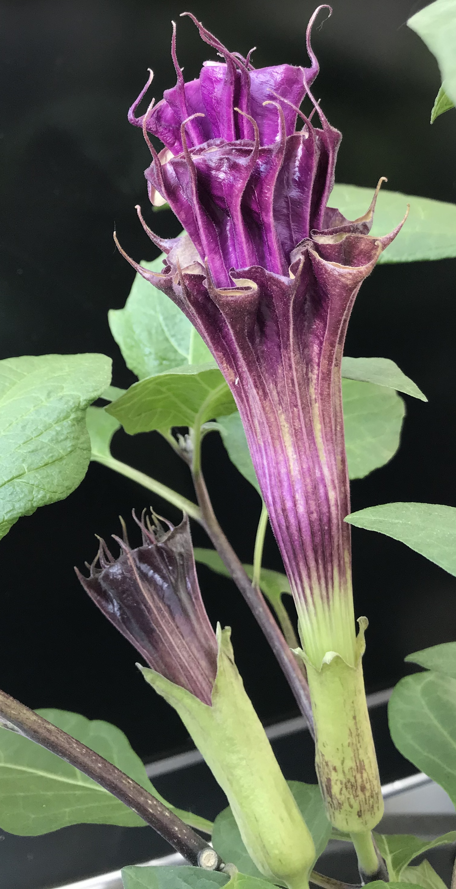 Two flowers of Datura metel 'Fastuosa' , the purple-black-stemmed form of the Hindu Datura or Indian Thornapple. D. metel has recently been found to have been a pre-Columbian introduction from Central America to India, at no later date than the 2nd century C.E. The plant is not, strictly speaking, a true species, its several ornamental forms having been created by ancient Central American horticulturalists from the wild desert species Datura innoxia, resulting in plants with longer-lasting, more colourful flowers that can be propagated by basal cuttings.